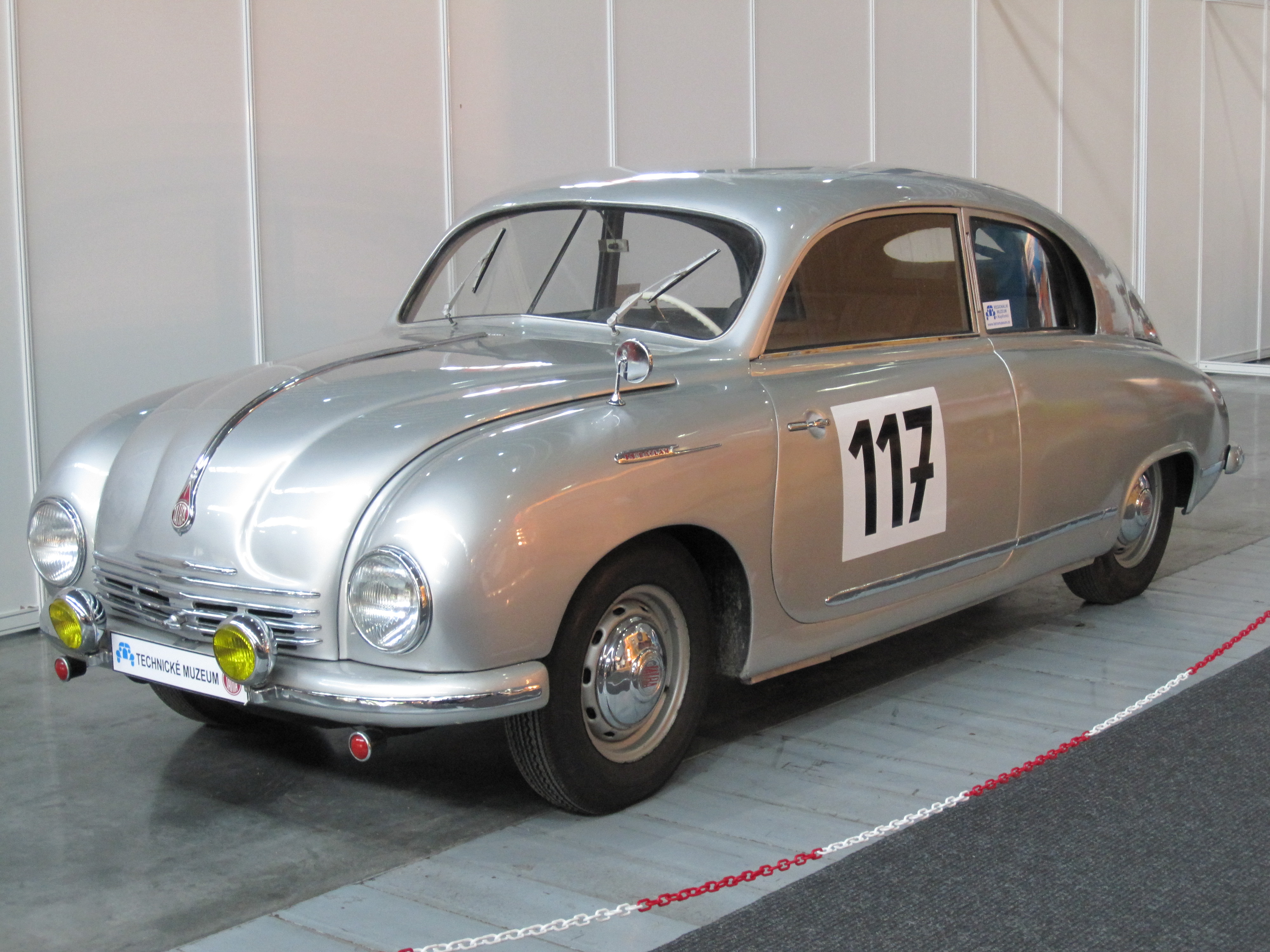 Closer look at old Tatra from Brno Autotec 2010